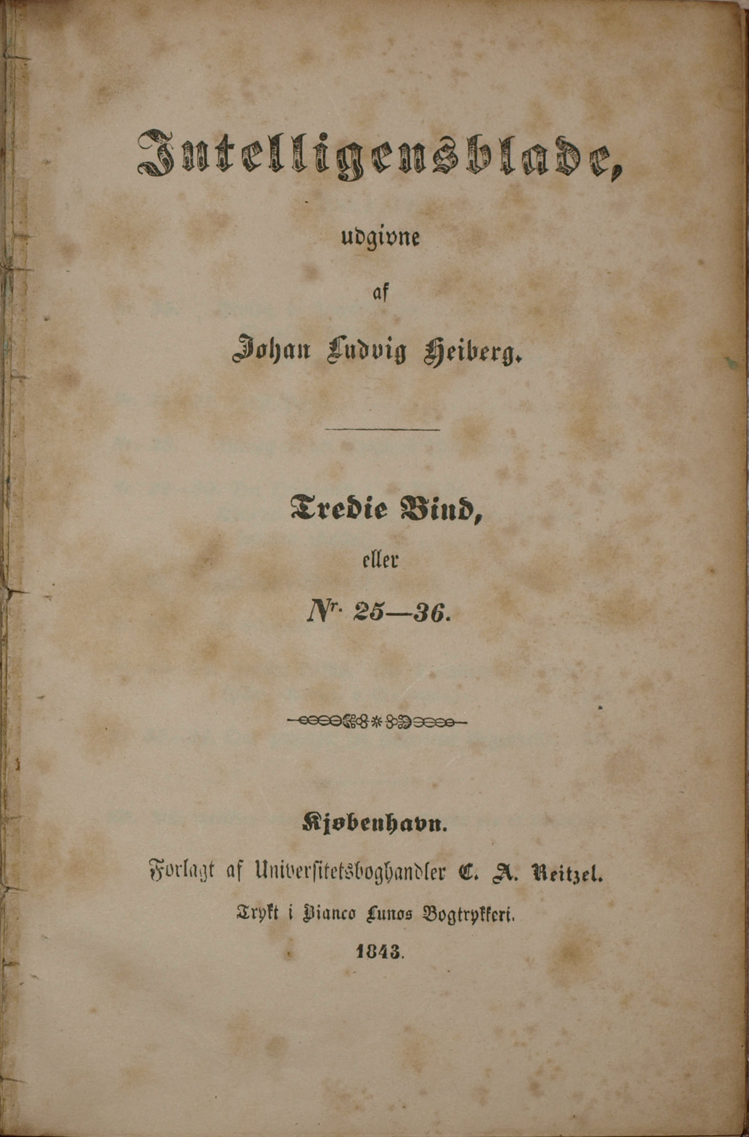 Titelblad til Johan Ludvig Heibergs (1791-1860) tidsskrift "Intelligensblade". (Her et nummer fra 1843)